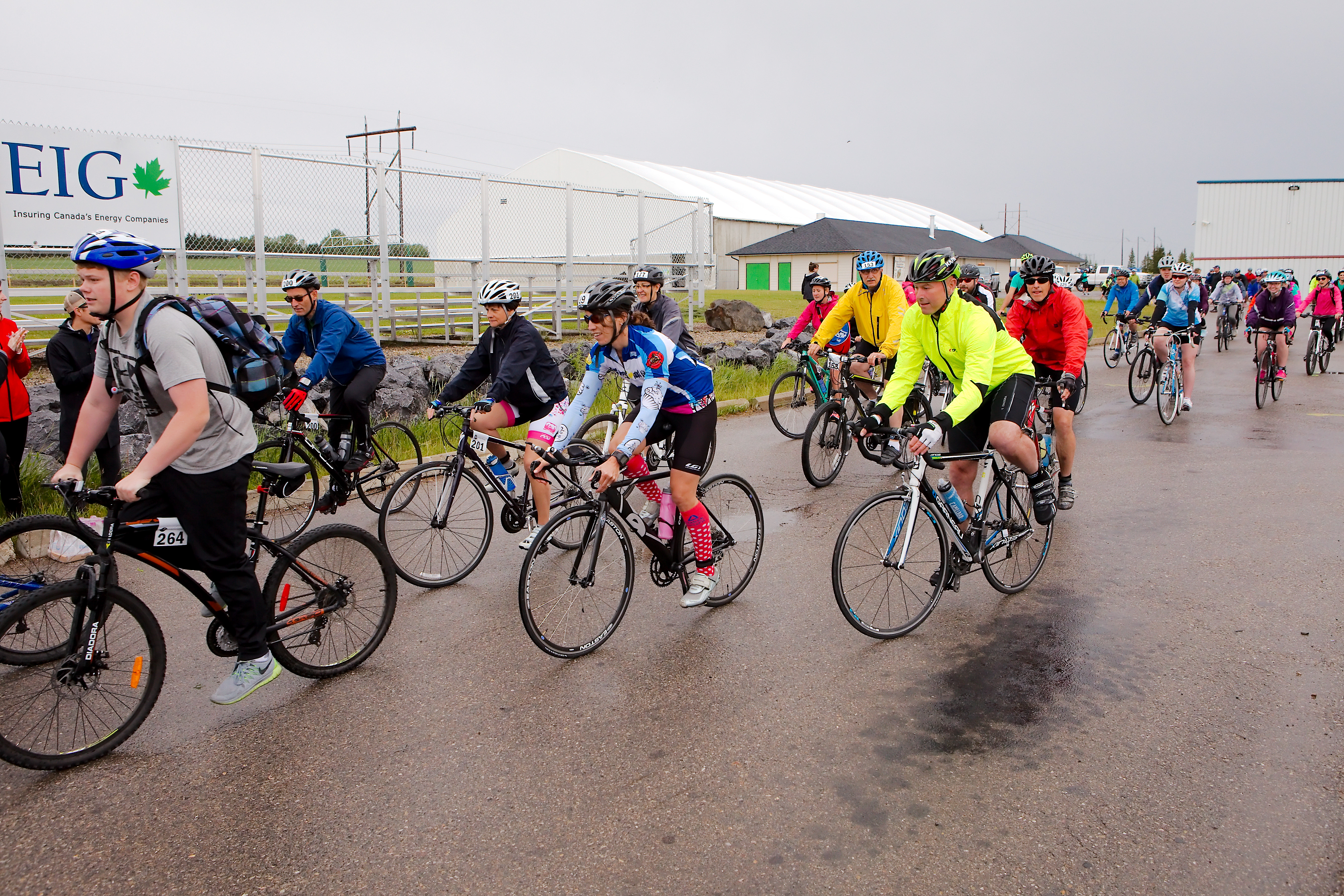 UCalgary's Community Impact Program at Calgary chapter of the Canadian Mental Health Association's 3rd annual Ride Don't Hide event in support of mental health awareness.